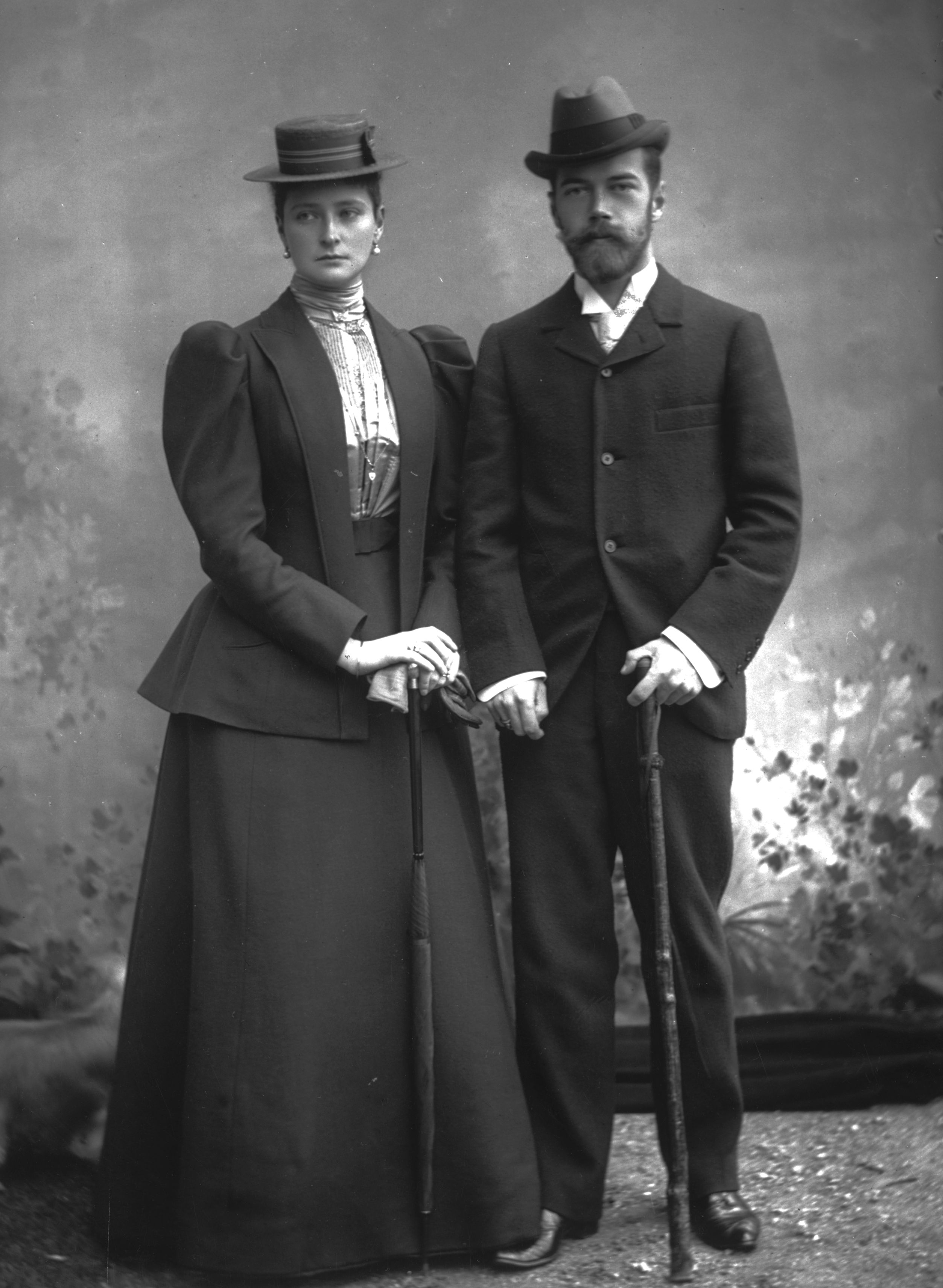 Nicholas II with his wife Aleksandra Feodorovna.